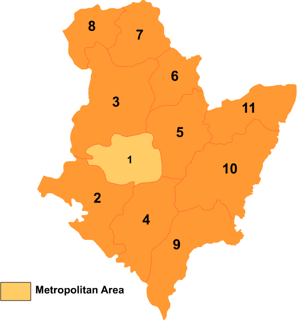 Map of Hengshui in Hebei province